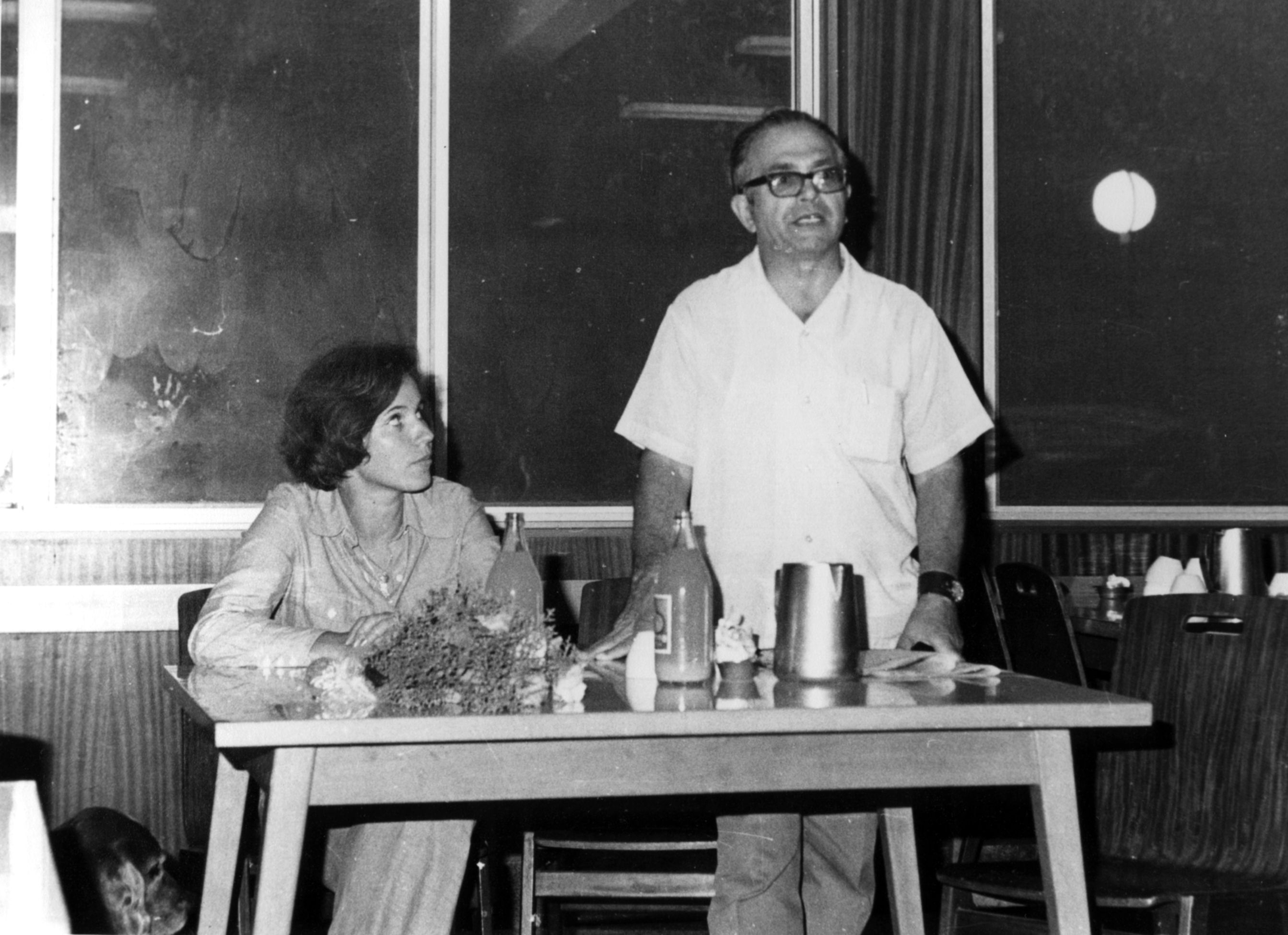 People of Israel